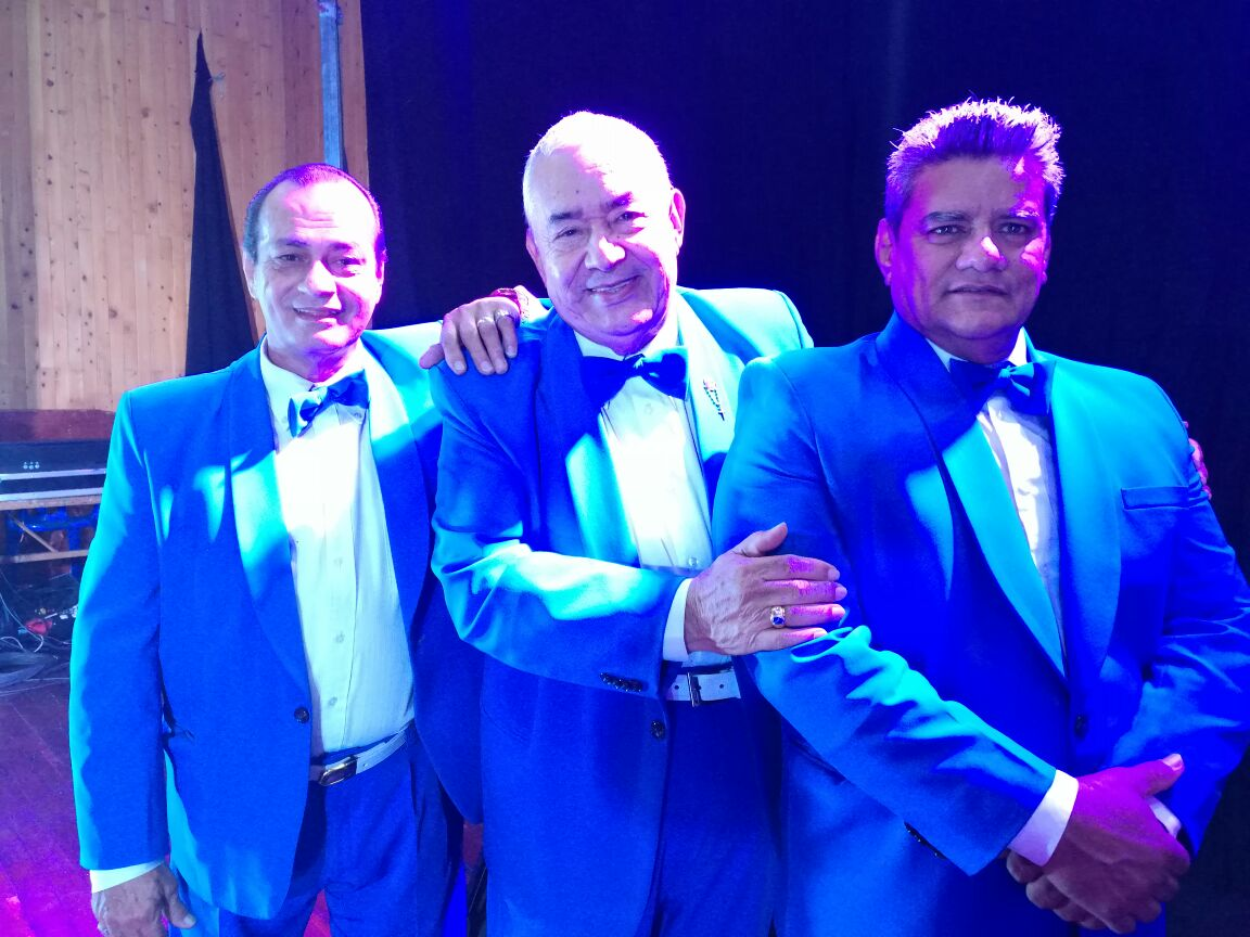 De izquierda a derecha Reynaldo, Pedro, Miguel